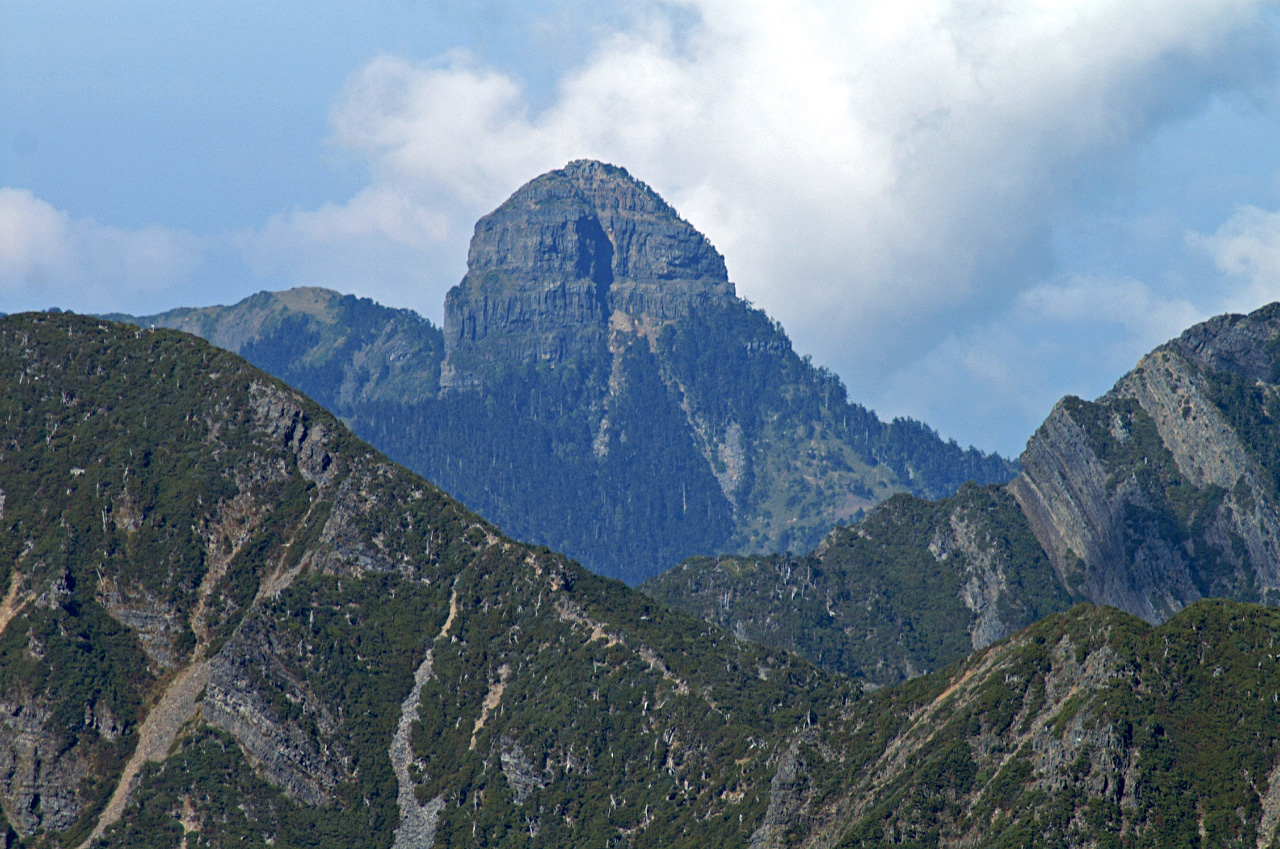 Da ba jian Mountain